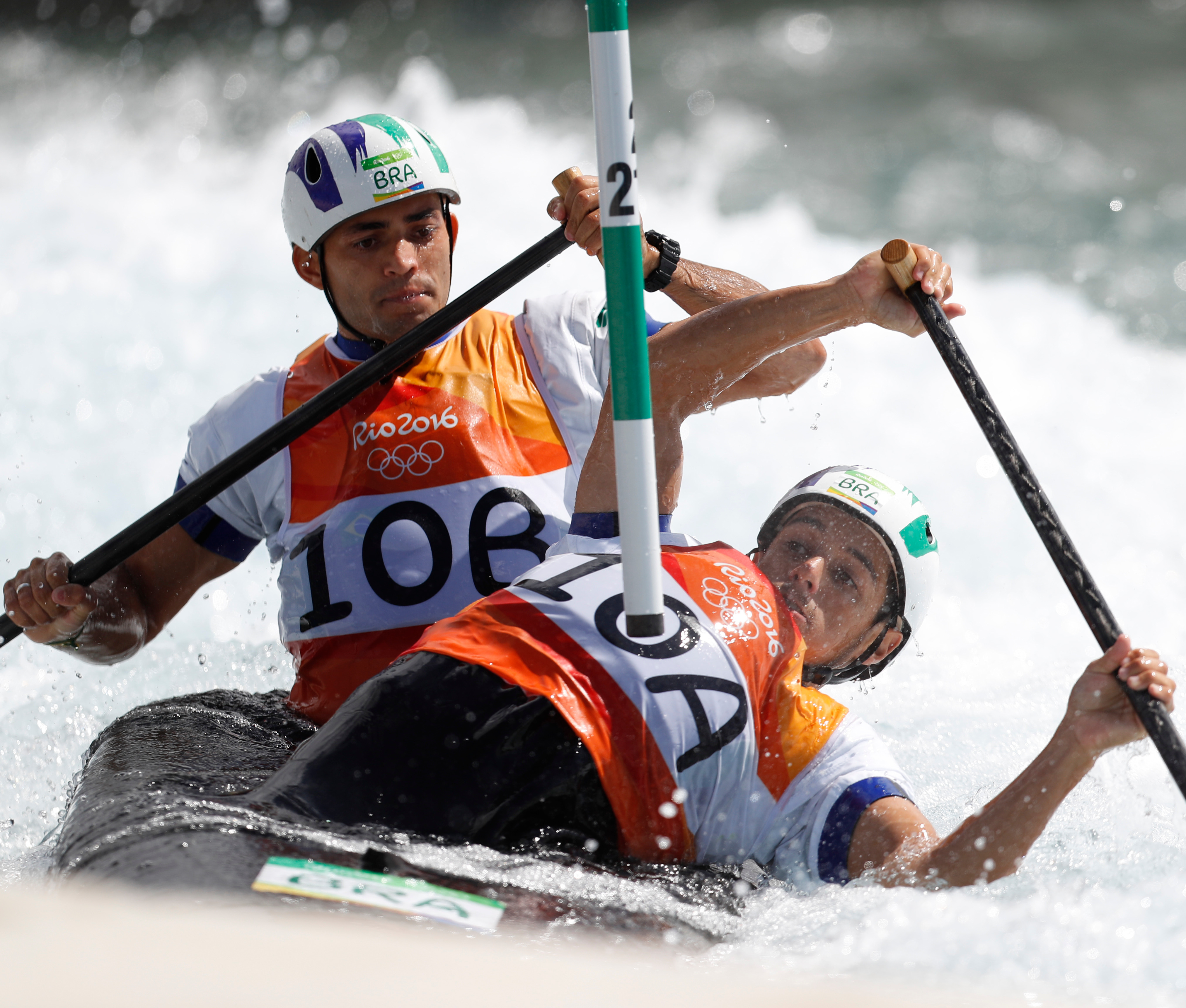 Rio de Janeiro - Dupla brasileira da canoagem slalom Charles Correa e Anderson Oliveira termina na semifinal da categoria C2 nos Jogos Olímpicos Rio 2016 , no X Park em Deodoro. (Fernando Frazão/Agência Brasil)